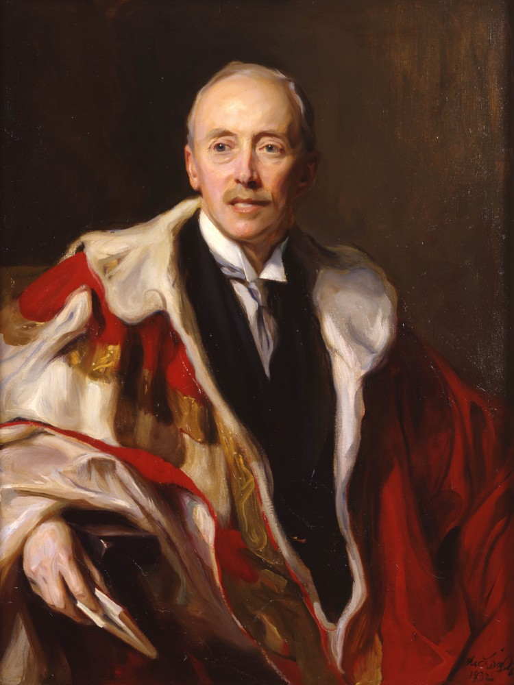 Photographic reproduction of a 1932 portrait of Charles Grey, 5th Earl Grey, by Philip de Laszlo. From The de Laszlo Archive Trust.